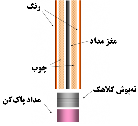 Pencil description in farsi language